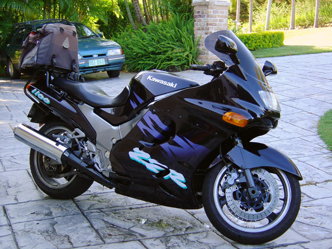 This photograph was taken by Peter Terry and uploaded by Peter Terry. 1997 Kawasaki ZZR 1100 D Model